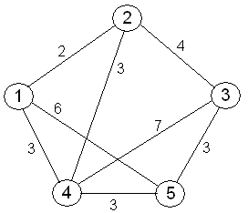 Example The travelling salesman problem (TSP)